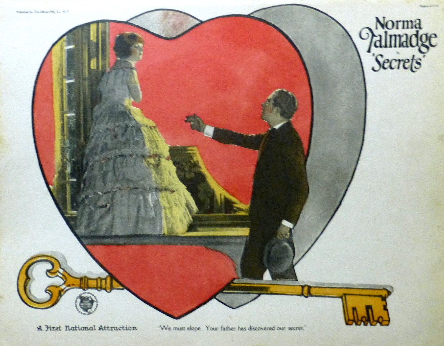 Lobby card for the 1924 American film Secrets. The item has no copyright markings on it as can be seen in the links above. At upper left is Published by the Ullman Mfg. Co., NY and at upper right is Made in USA.